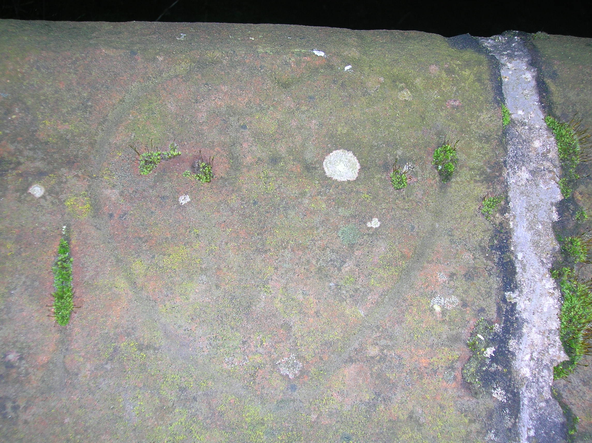 A love heart carved on the bridge over the Capringston Burn, near to Warwickdale Farm. A miners village and school used to exist here.